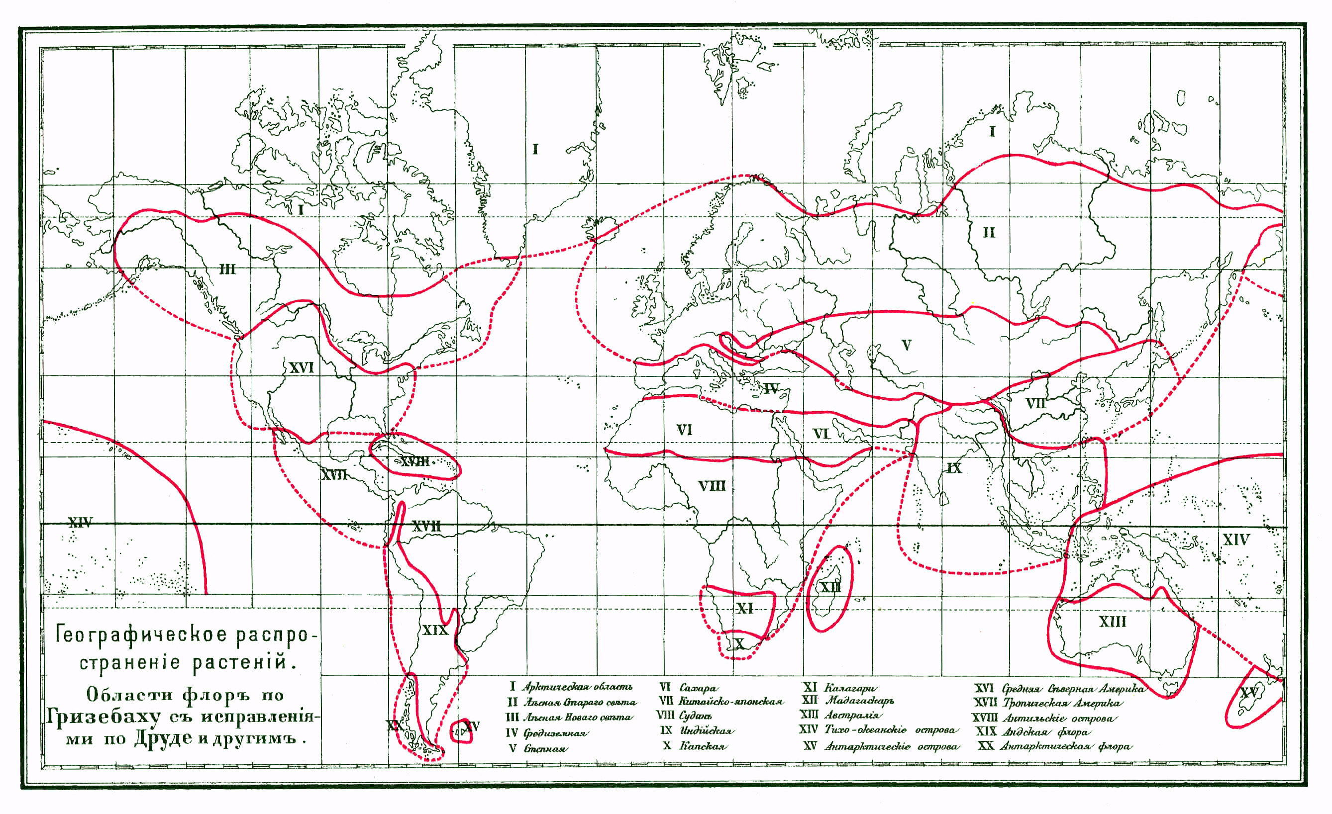 Illustration from Brockhaus and Efron Encyclopedic Dictionary (1890—1907)